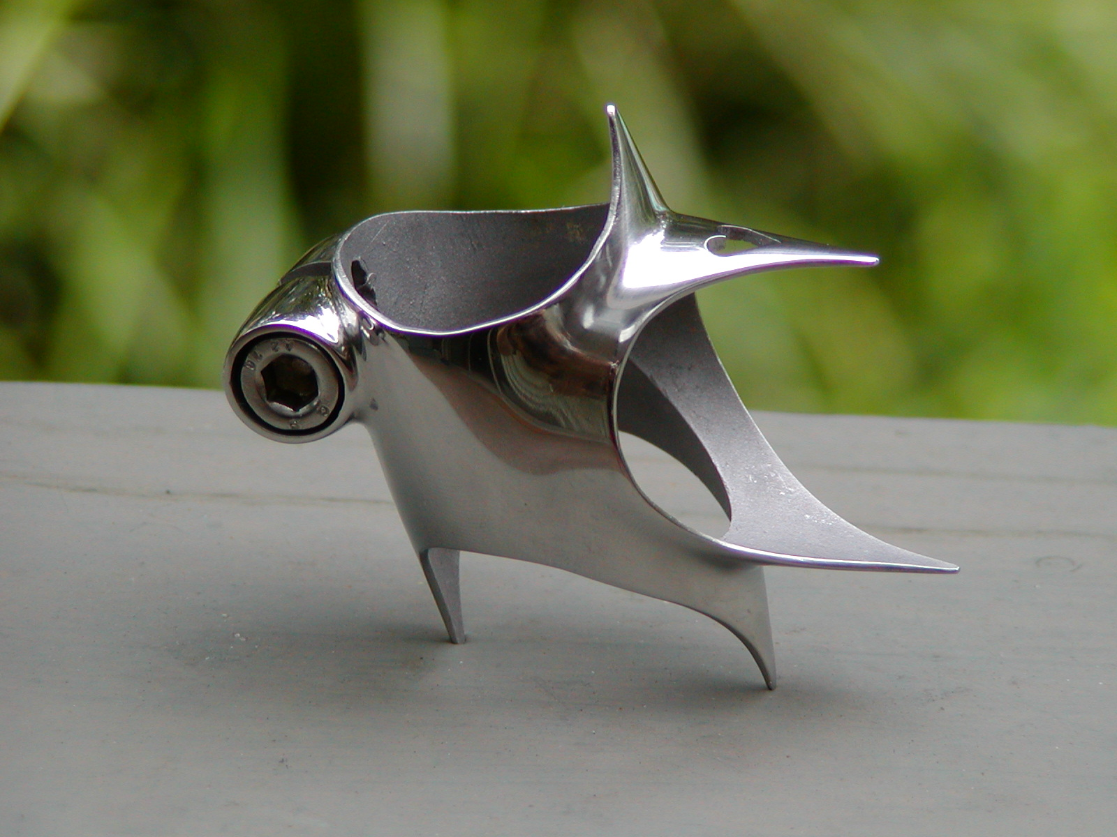 A stainless steel Henry James seat lug, polished to a mirror finish, with a filed cutout.